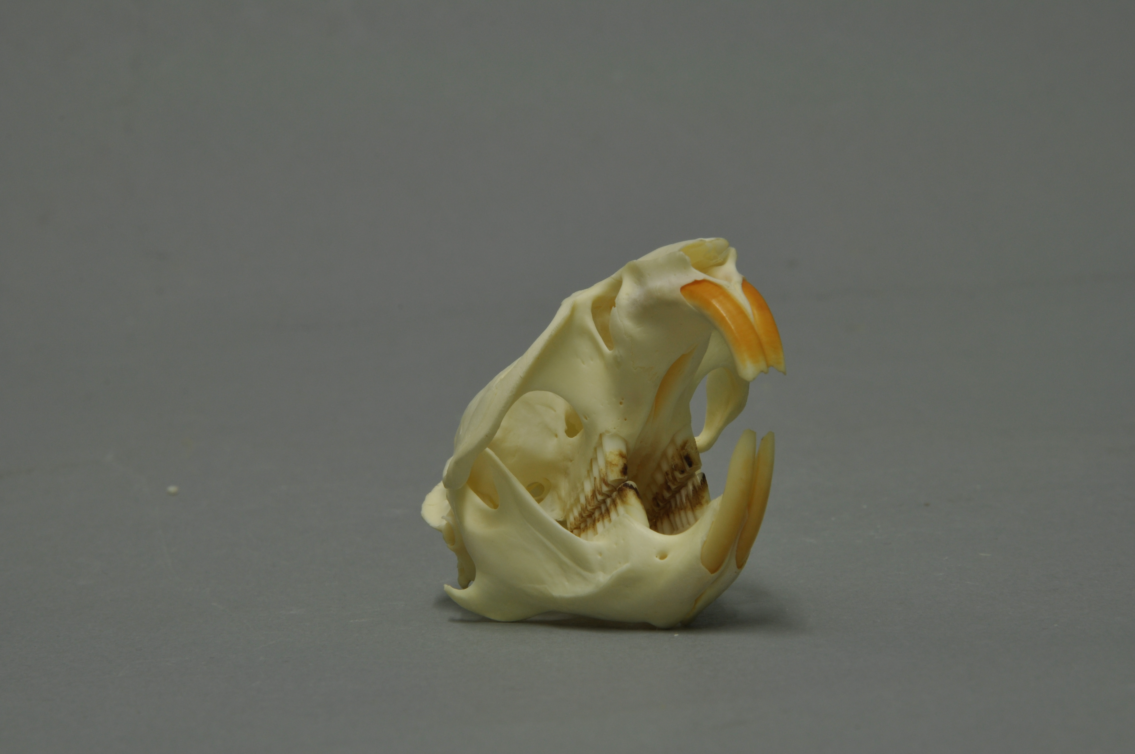 muskrat , skull, Coll. Museum Wiesbaden